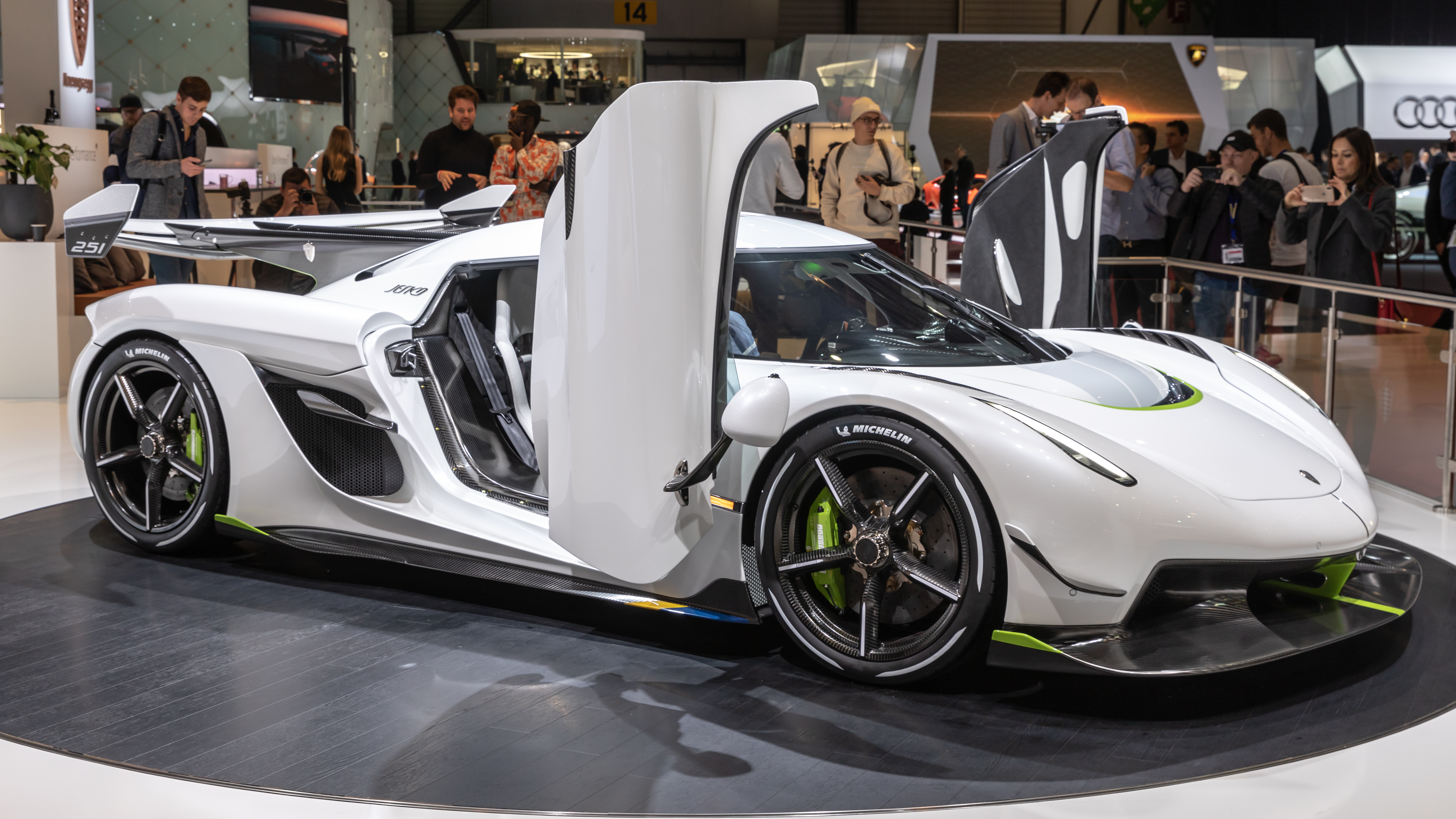 Koenigsegg Jesko at Geneva International Motor Show 2019, Le Grand-Saconnex